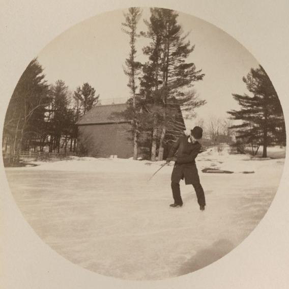 The Reverend James P. Conover (Jay Conover) of St. Paul's School in New Hampshire is credited with bringing the sport of ice hockey from Canada to the U.S., along with a square, leather-covered puck. Conover graduated from St. Paul's in 1876 and was teaching there from 1882 to 1915.[1] Conover is also called a "father of American squash".[2]